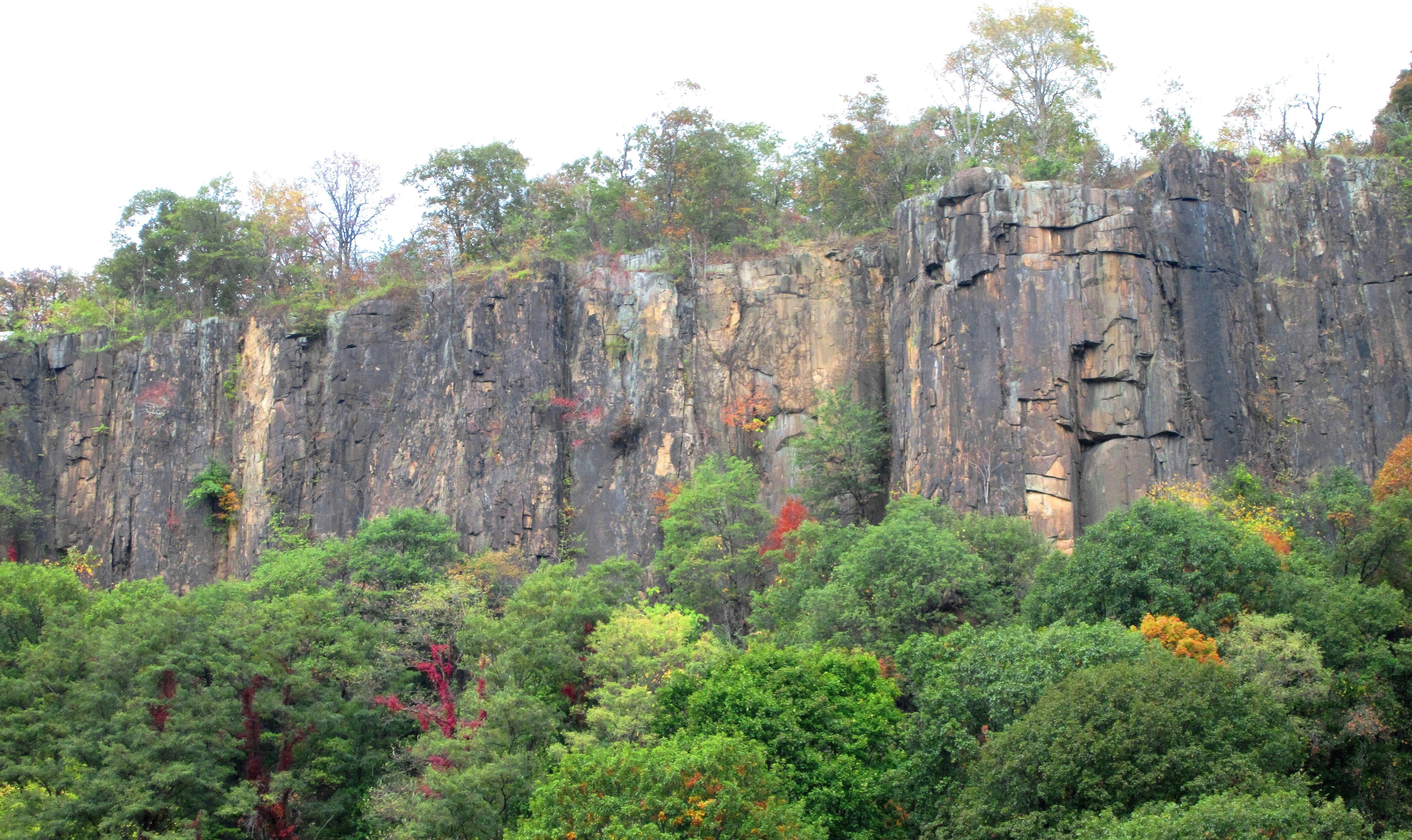 The Hudson River Palisades in fall as seen from the Ross Dock Picnic Area of the Palisades Interstate Park in New Jersey.